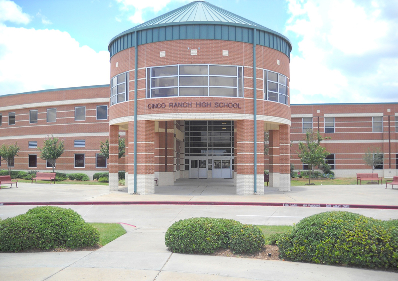 View of the main entrance to Cinco Ranch High School in Cinco Ranch, TX.